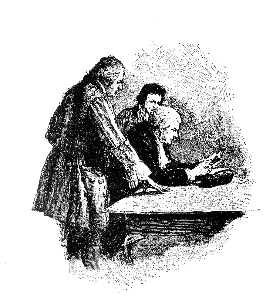 Doctor Livesey and Squire Trelawney inspecting the map of Treasure Island. Illustration by Walter Paget for the 1899 edition of "Treasure Island" by Robert Louis Stevenson.